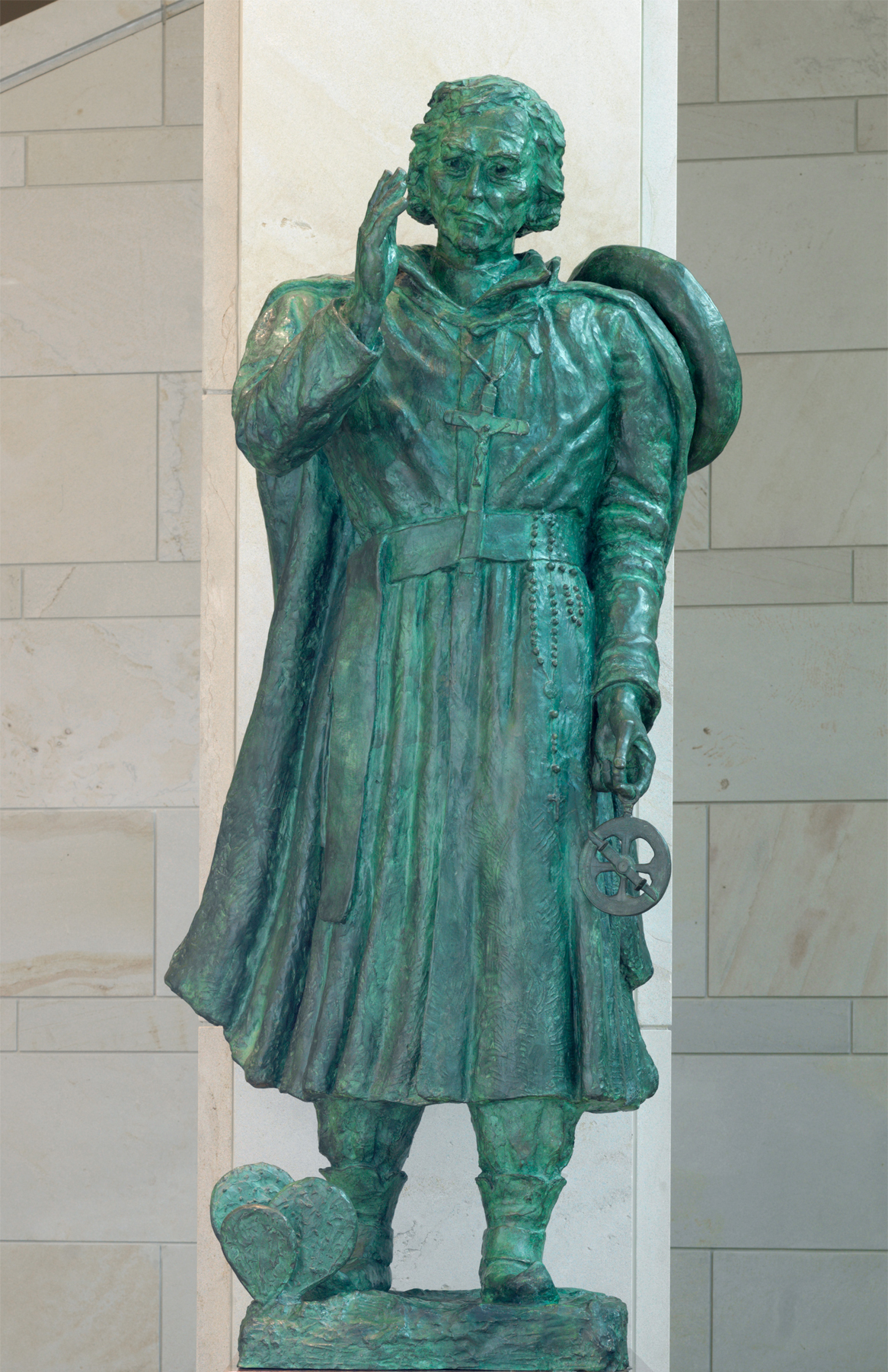 Eusebio Kino (1645-1711) Arizona Bronze by Suzanne Silvercruys Given in 1965 CVC Emancipation Hall U.S. Capitol This official Architect of the Capitol photograph is being made available for educational, scholarly, news or personal purposes (not advertising or any other commercial use). When any of these images is used the photographic credit line should read “Architect of the Capitol.” These images may not be used in any way that would imply endorsement by the Architect of the Capitol or the United States Congress of a product, service or point of view. For more information visit